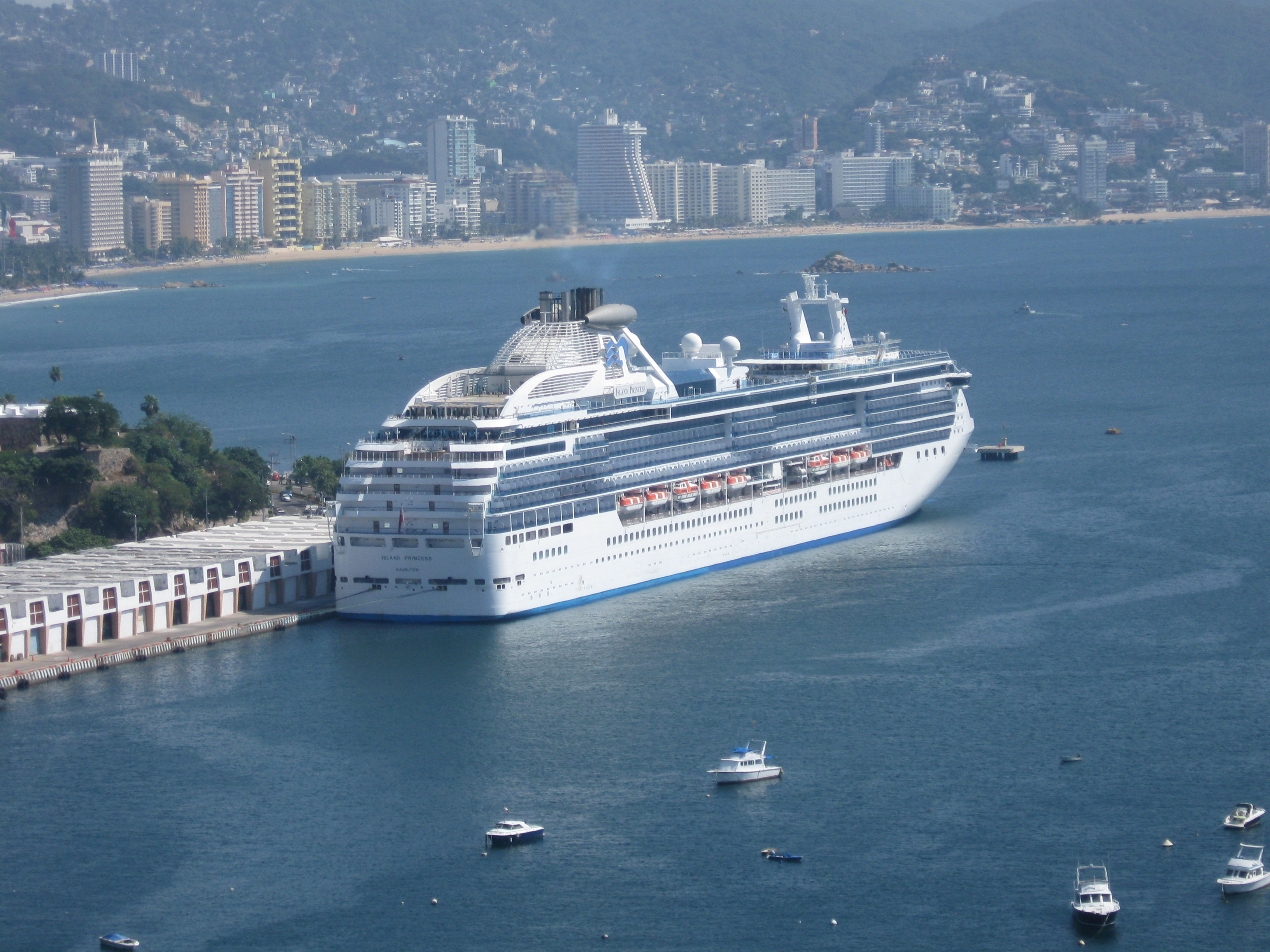 Acapulco Camera: Canon PowerShot A590 IS License on Flickr (2010-12-26): CC-BY-2.0